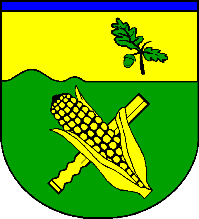 Coat of arms of the municipality Goldelund in Schleswig-Holstein, Germany.